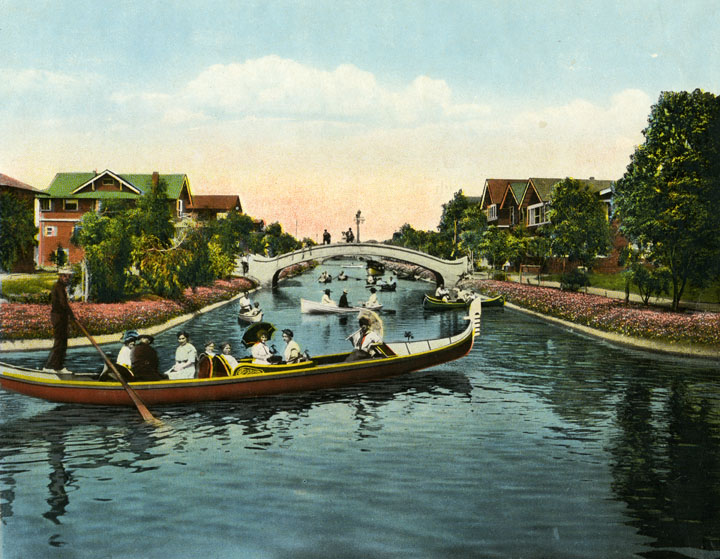 A gondolier on the completed canals of Venice, Los Angeles, California.